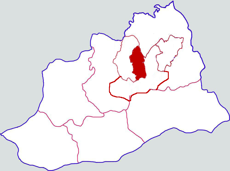 Location of Jiefang district in Jiaozuo city, China